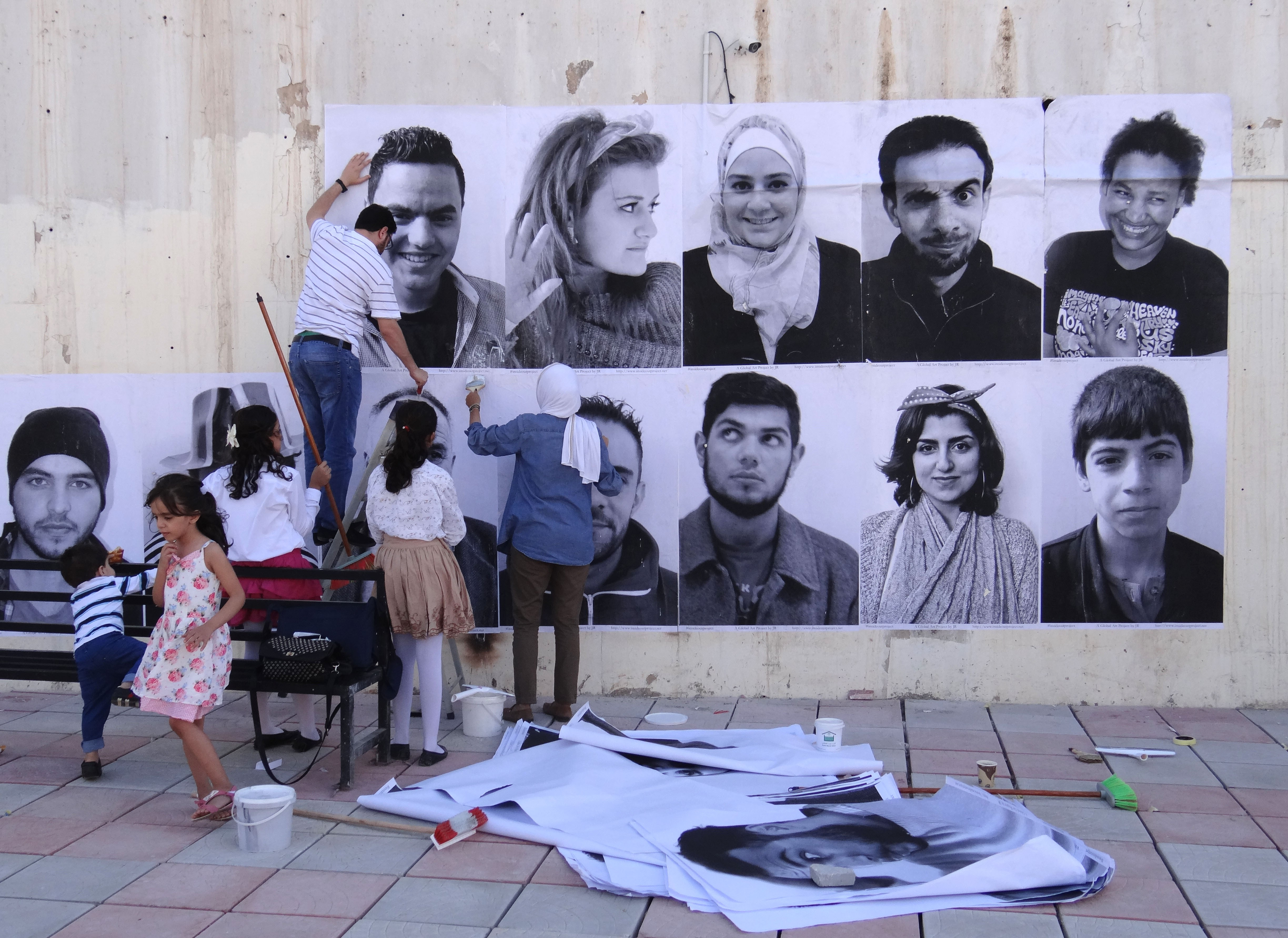 "We are Arabs, We are humans" Group Action in Irbid, Jordan, June 2015